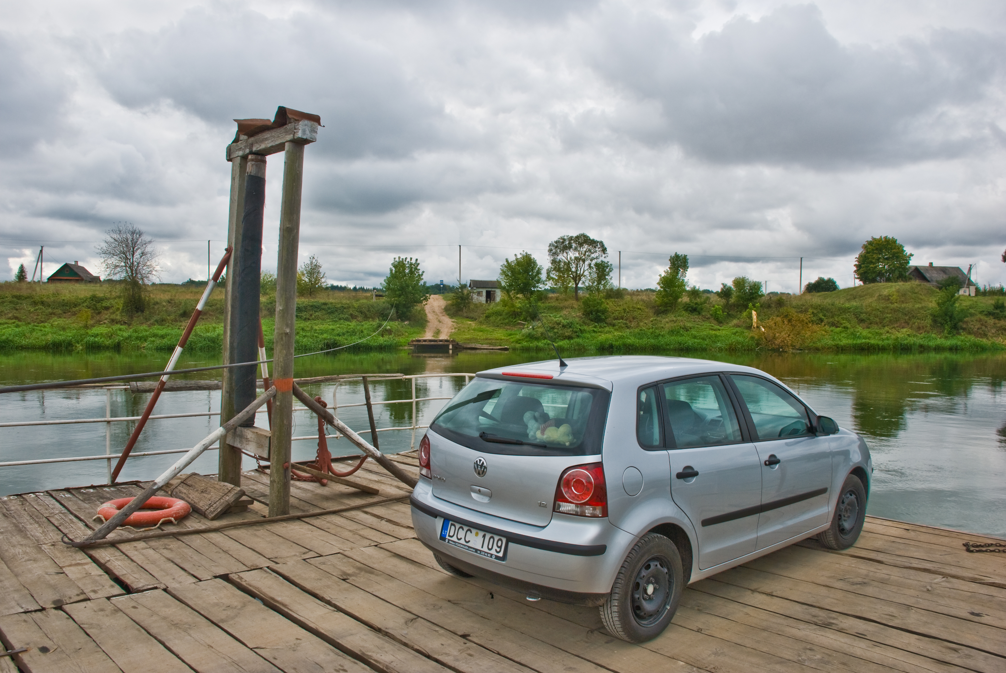 On the River Neris ferry at Ciobiskis, Lithuania, 11 Sept. 2008